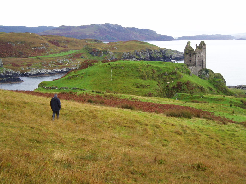 A picture of Gylen Castle, on The Isle of Kerrera, Inner Hebrides, Scotland. Taken late November 2006.